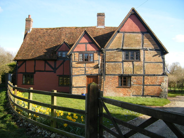 Charming cottage in Nether Winchendon